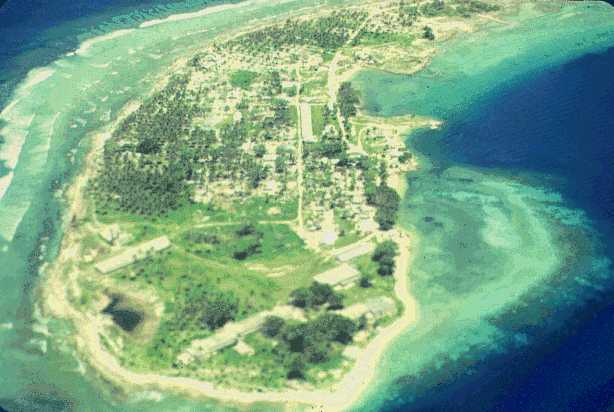 Aerial view of Jaluit Atoll in 1978.